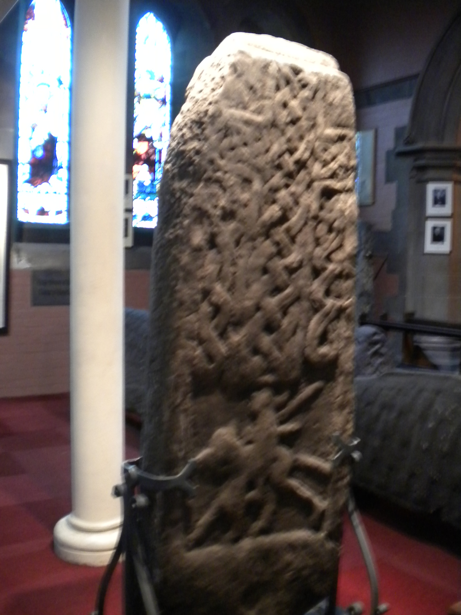 Carved cross in Govan Old Church, Glasgow. The cross came originally from the churchyard. It was laid flat.